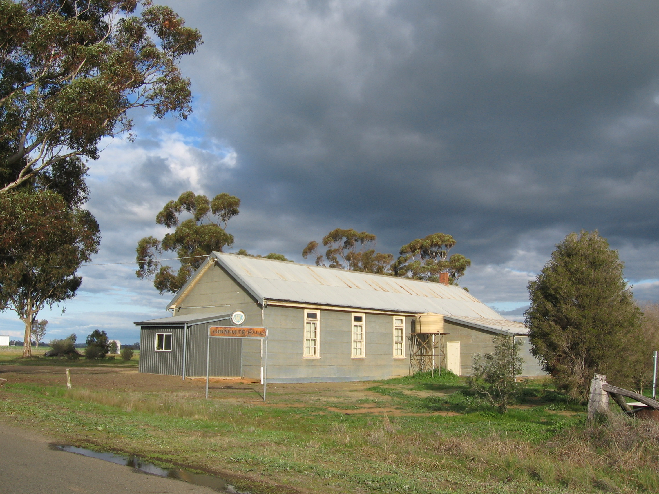 CWA Hall at Youanmite, Victoria